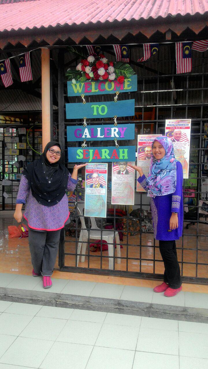 Pintu Masuk Galeri Sekolah